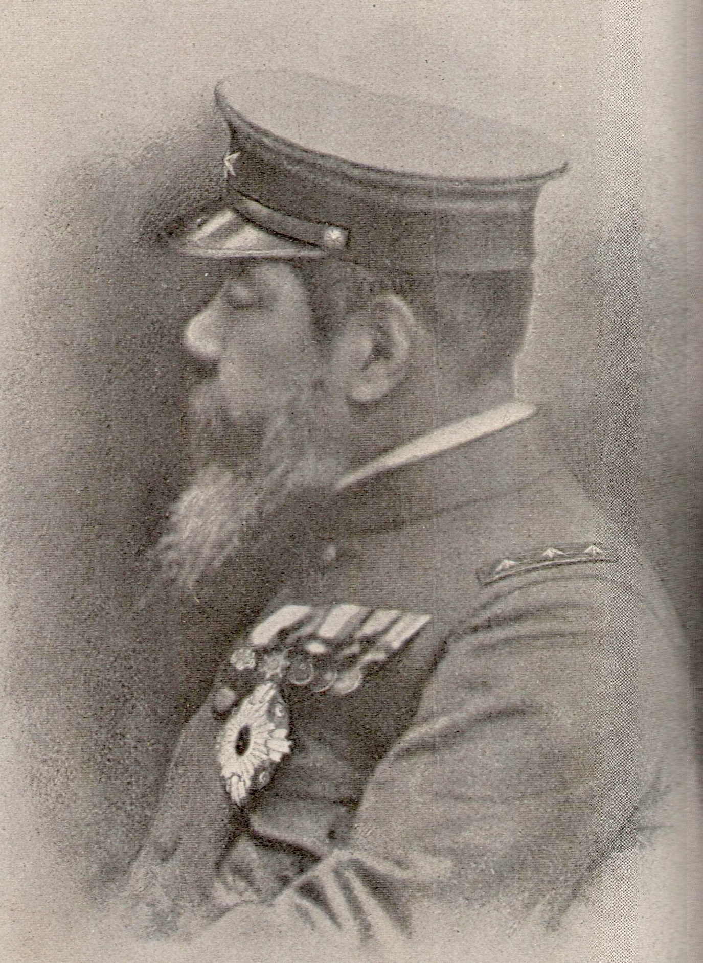 A portrait of Emperor Meiji from The Spell of Japan(1914) by Isabel Weld Perkins